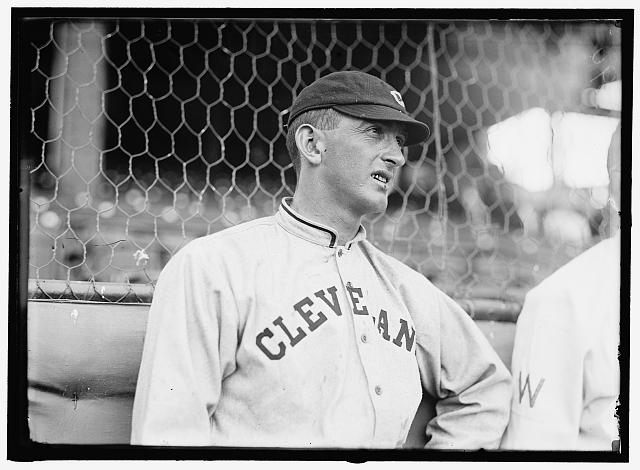 Title: ["Shoeless" Joe Jackson, Cleveland AL (baseball)] Creator(s): Harris & Ewing, photographer Date Created/Published: 1913. Medium: 1 negative : glass ; 5 x 7 in. or smaller Part of: Harris & Ewing Collection (Library of Congress) Reproduction Number: LC-DIG-hec-02792 (digital file from original negative) Rights Advisory: No known restrictions on publication. Call Number: LC-H261- 2755 [P&P] Repository: Library of Congress Prints and Photographs Division Washington, D.C. 20540 USA